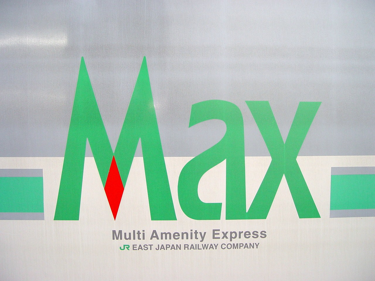 Original "Max" logo on a JR East E1 series shinkansen (set M1) at Omiya Station